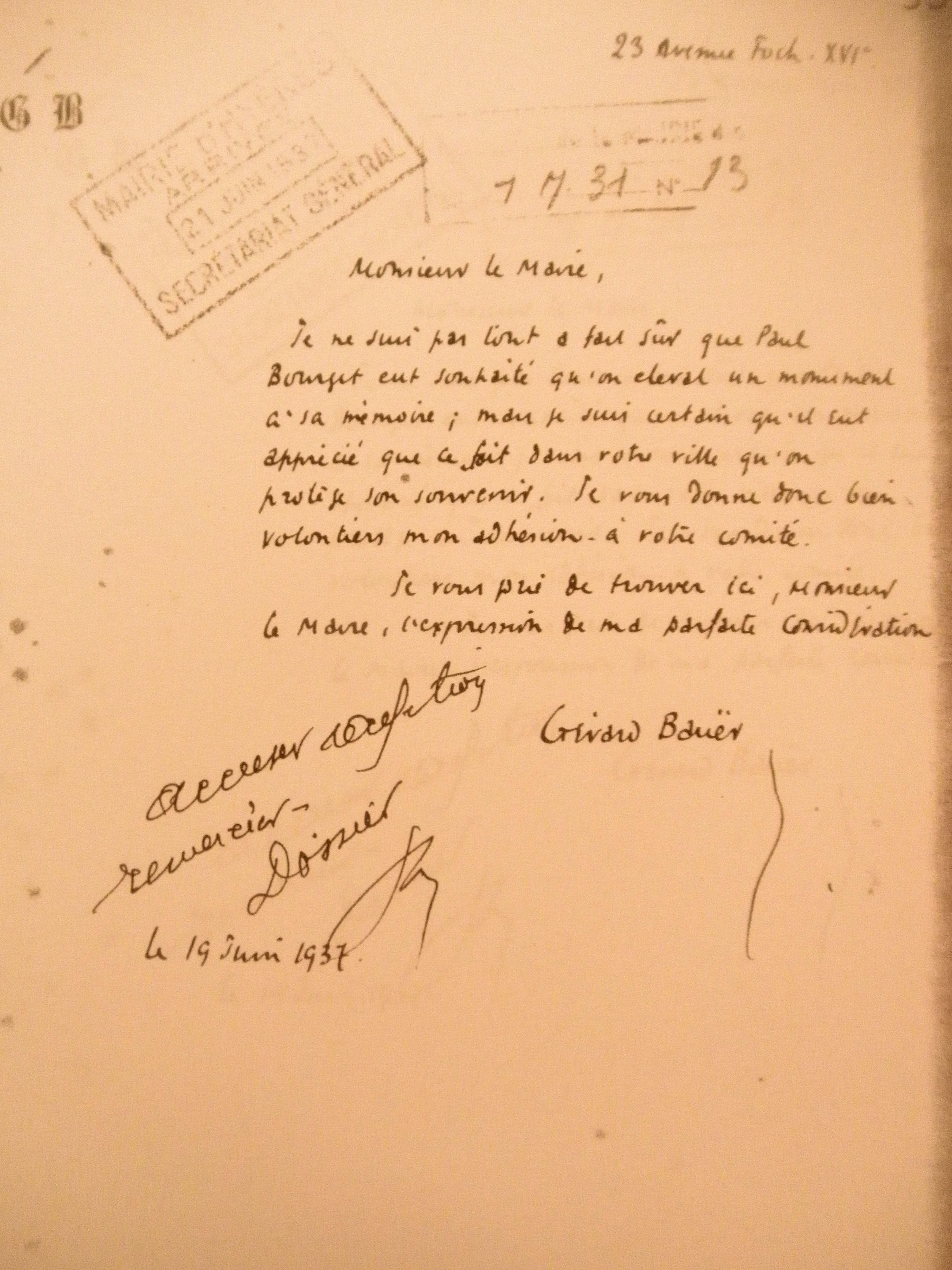 Lettre Bauer